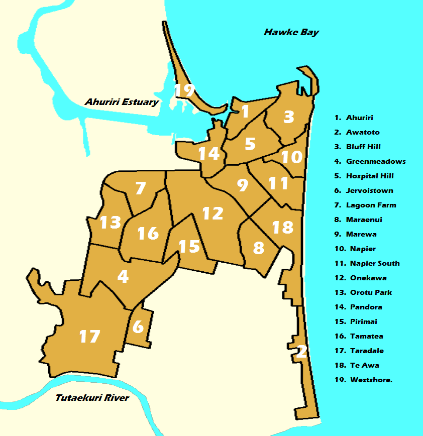 Labelled map of the 19 Suburbs that make up Napier City, New Zealand.